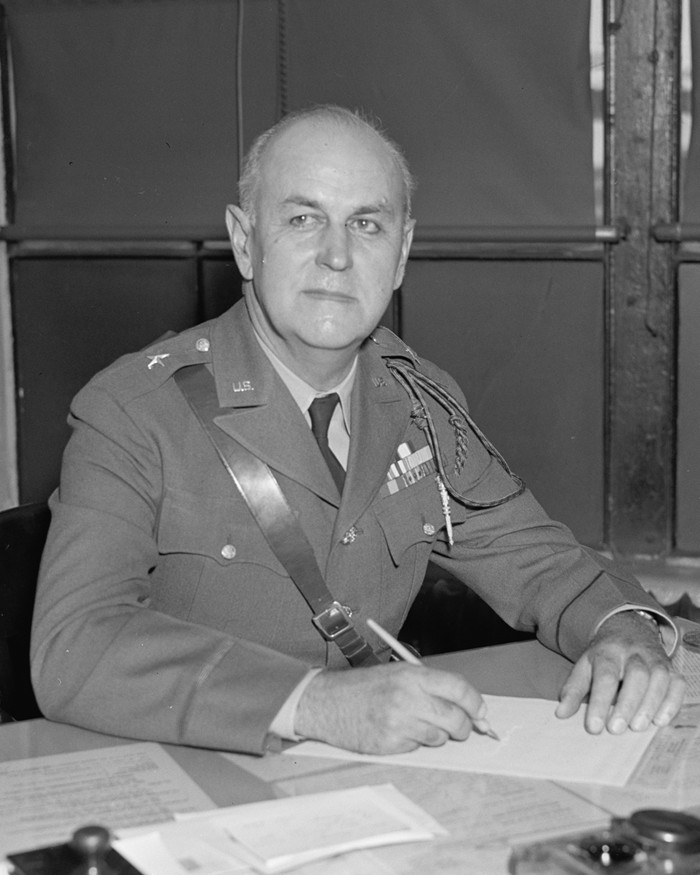 Major General Maxwell Murray (1885-1948), commander of the US 25th Infantry Division.